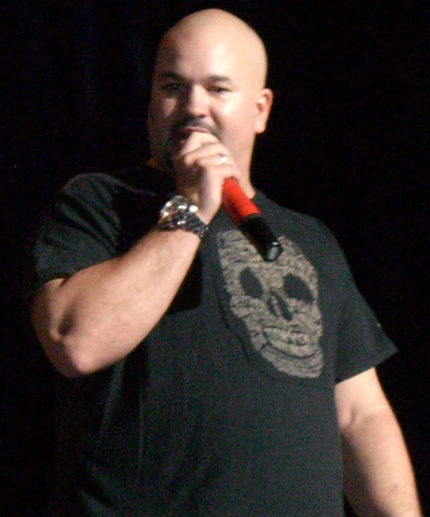 Bob Kelly at the O&A Traveling Virus, 2007.